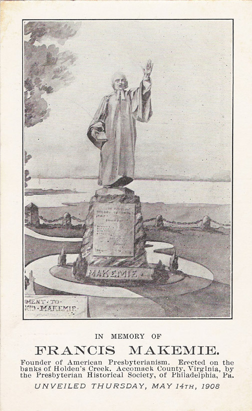 Statue of Francis Makemie.